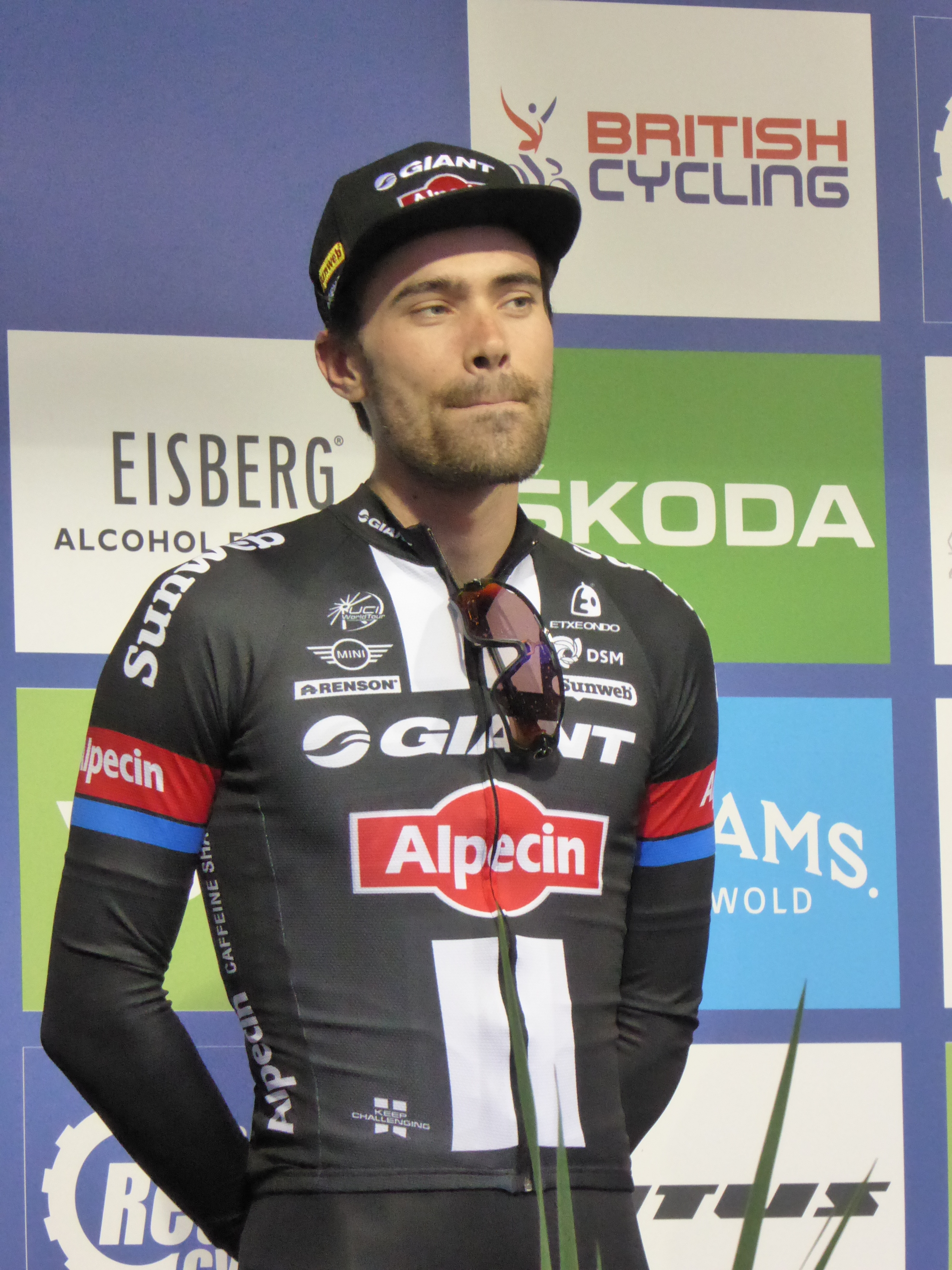 Tom Dumoulin (Team Giant-Alpecin), pictured at the 2016 Tour of Britain team presentation in Glasgow on 3 September 2016.